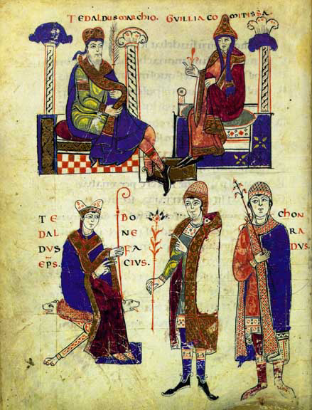 Page of the Vita Mathildis. From left to right: on top: Tedaldus marchio (Tedald of Canossa) and his wife Guillia comitissa (Willa of Tuscany). On the bottom: Tedaldus eps. (Tedaldus' son, bishop of Arezzo), Bonifacius (Boniface of Tuscany, Tedald's son) and Chonradus (his youngest son).